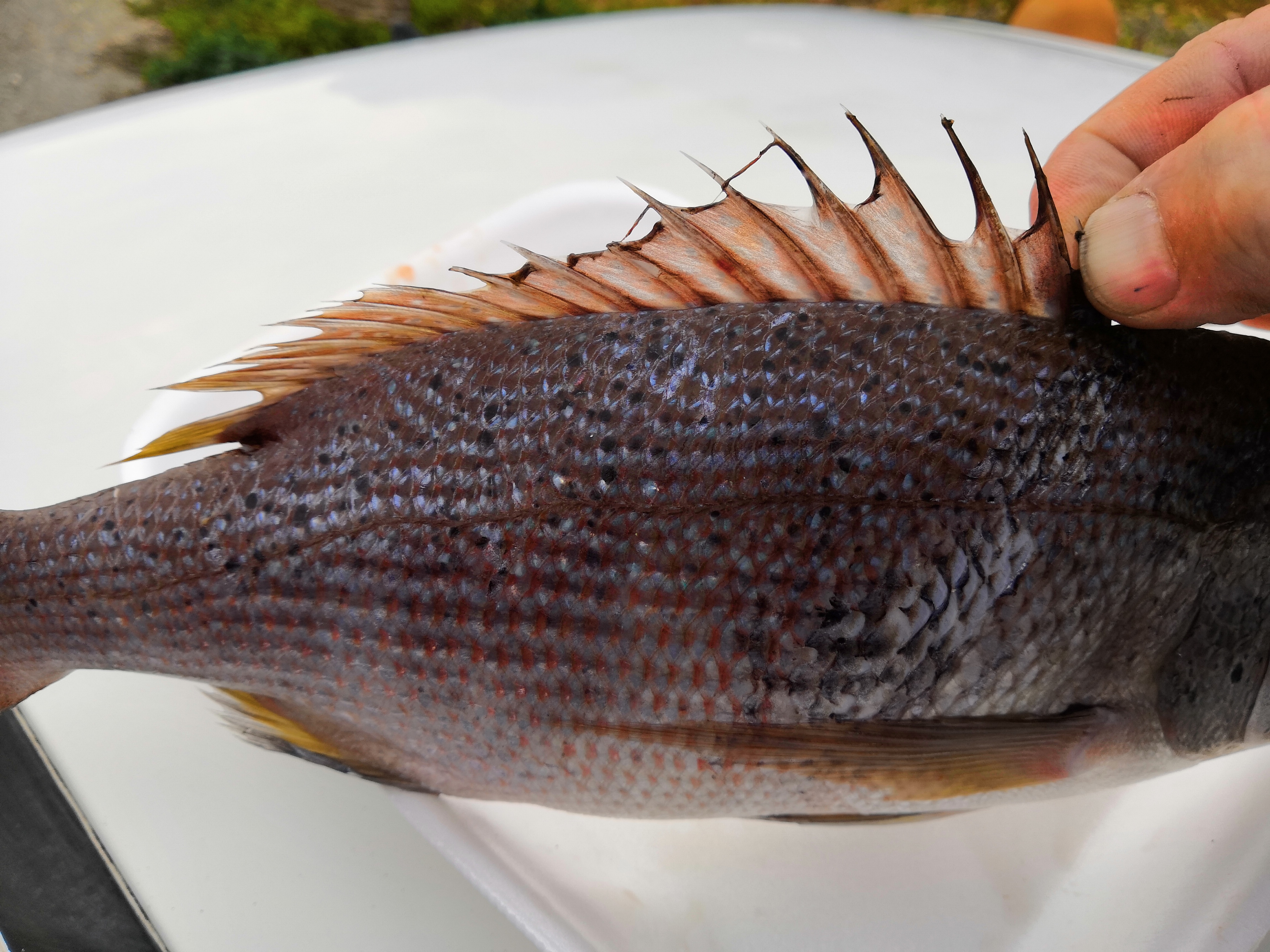 Dentex dentex, the entire fish is aprox. 30 cm long